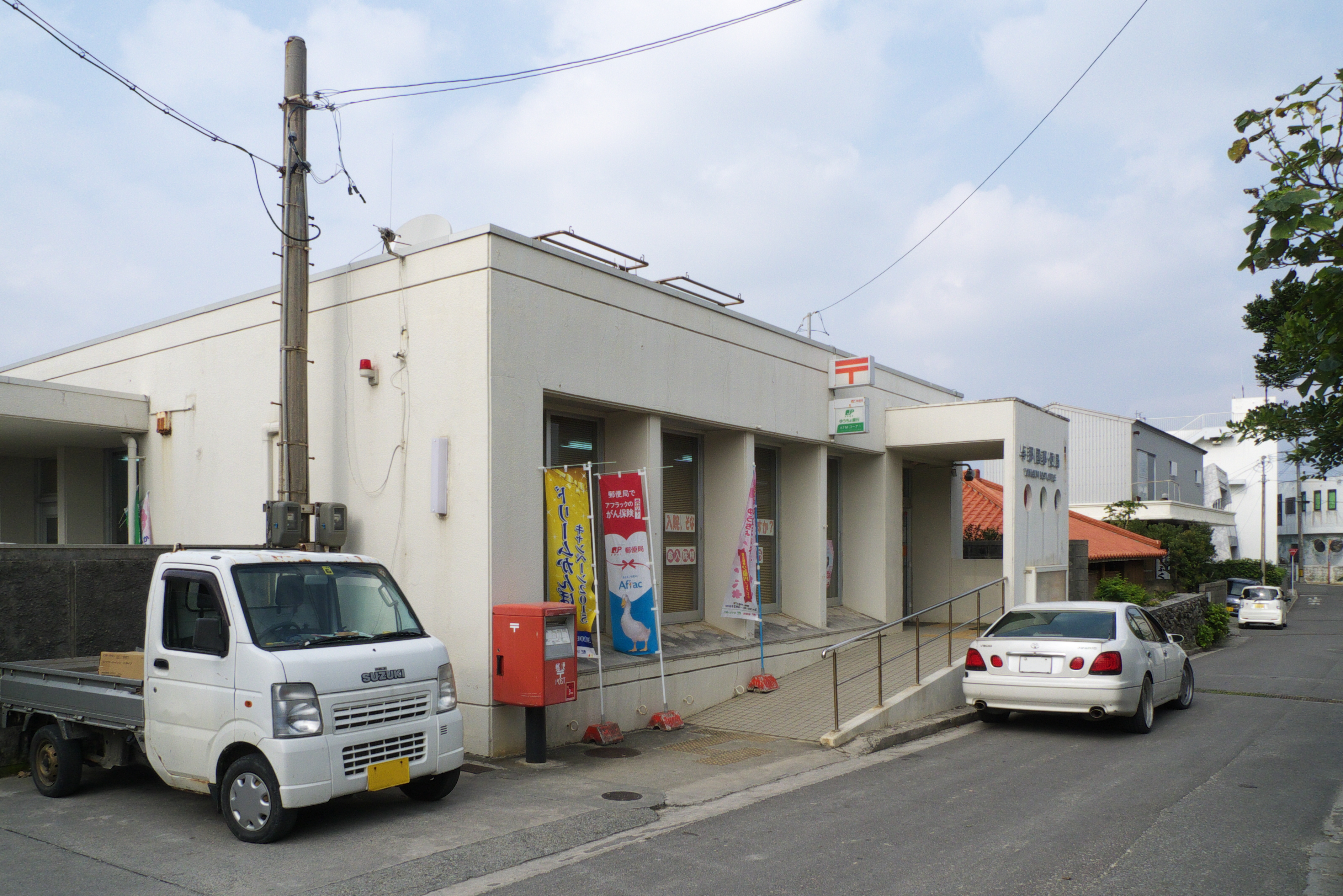 Yonaguni Post Office in Yonaguni Town, Okinawa Prefecture, Japan